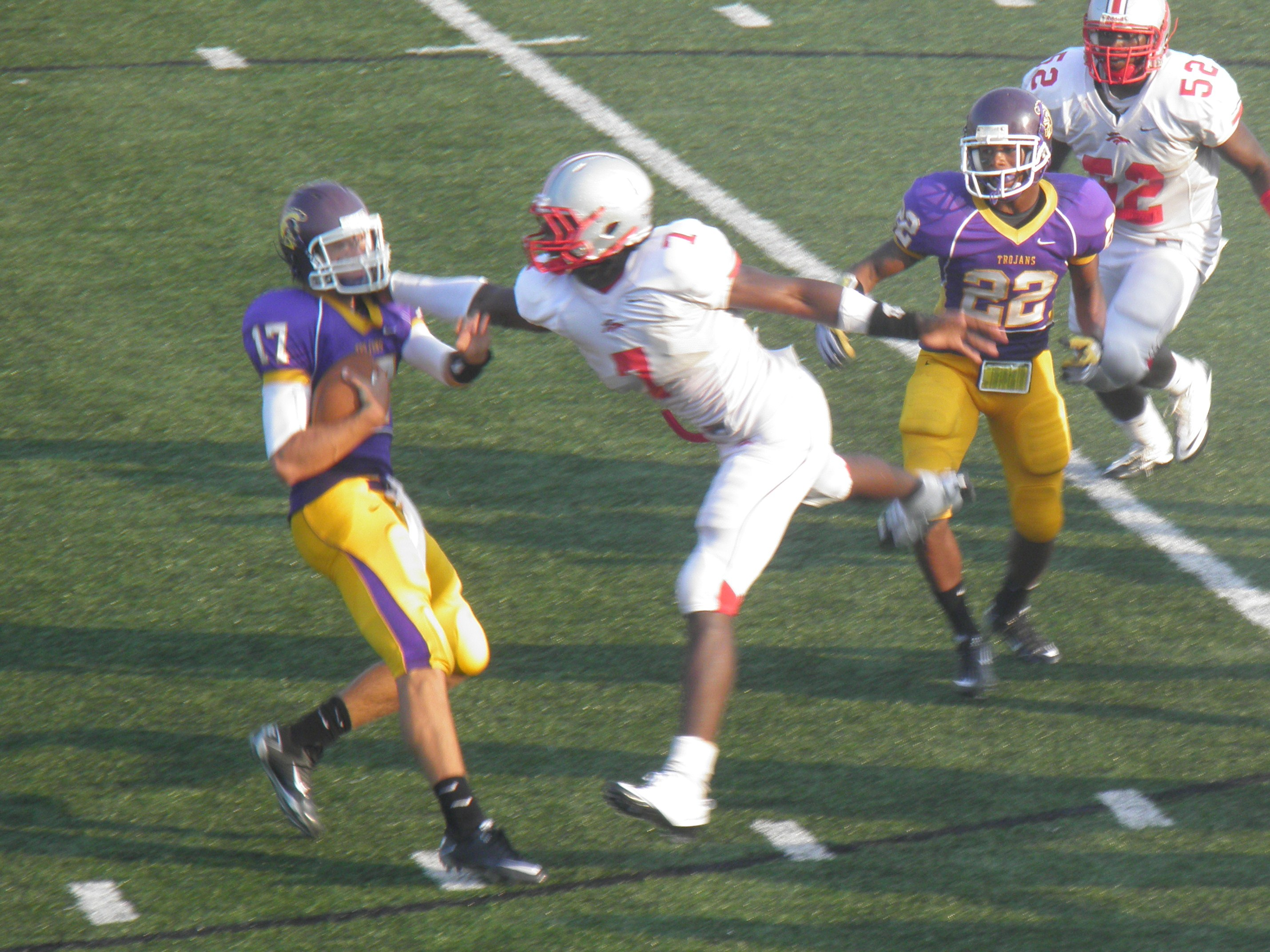 South Carolina Gamecocks signee Jadeveon Clowney attempts to sack Tennessee Volunteers signee Justin Worley in a high school football game in Rock Hill, South Carolina on August 28, 2010